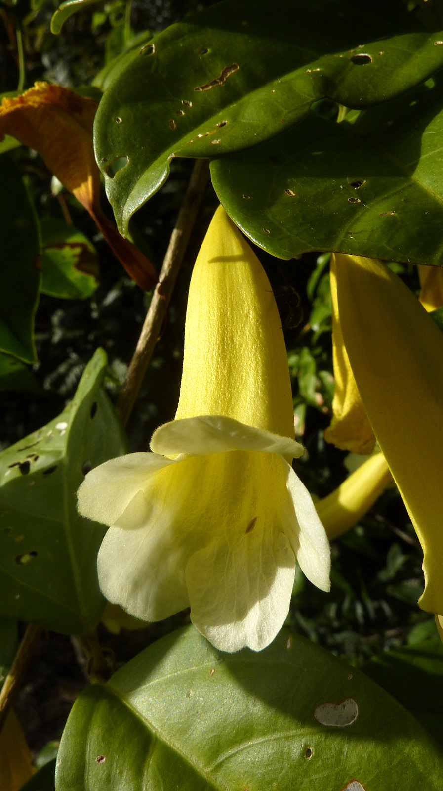 Anemopaegma citrinum in Entre Rios, Bahia, Brazil